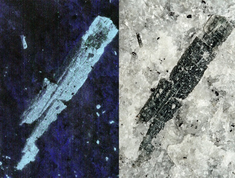 Tremolite (Size: 4.5 cm) Locality: Franklin Quarry (Moses Bigelow Quarry; Farber Quarry), Franklin, Franklin Mining District, Sussex County, New Jersey, USA Original description: Total length of xls is 4.5 cm. They are actually terminated but the terminations are not very sharp. The flash photo makes the xls look black but they are actually dark silvery gray.